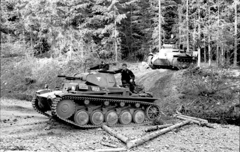 "In the West (Western campaign).- Panzer II (Ausf.c, A,B,C series) and Panzer I (Ausf.B) in the woods; KBK Lw [Kriegsberichter Kompanie Luftwaffe, "Luftwaffe war-reporting company"] 4"